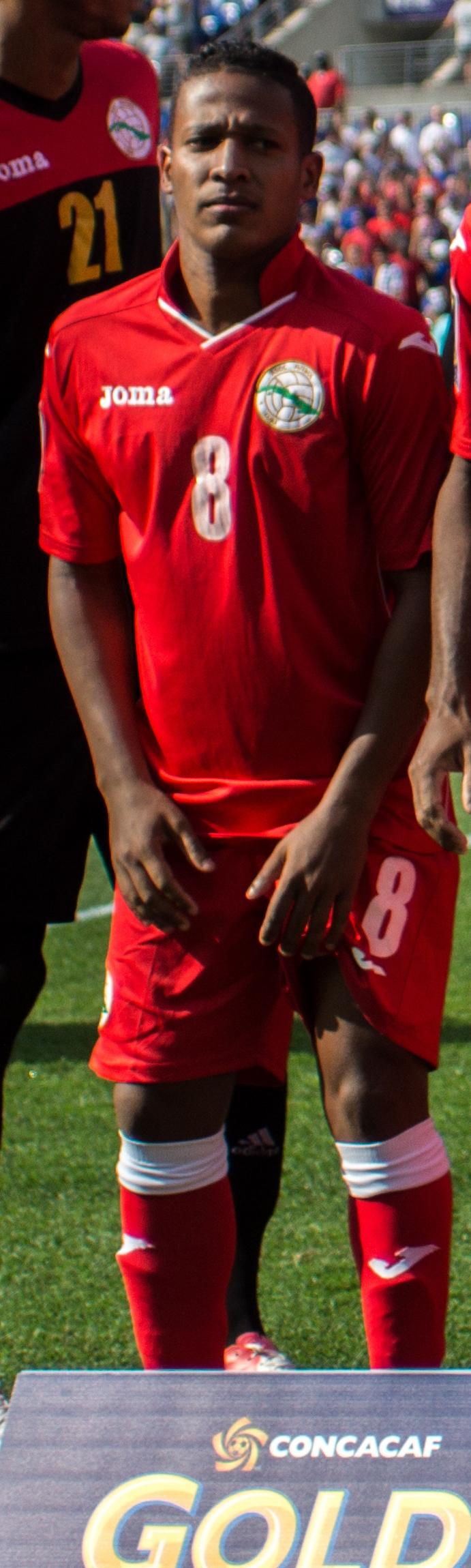 CONCACAF Quarter-Finals (USA vs Cuba) - Baltimore, MD (July 2015) Alberto Gómez